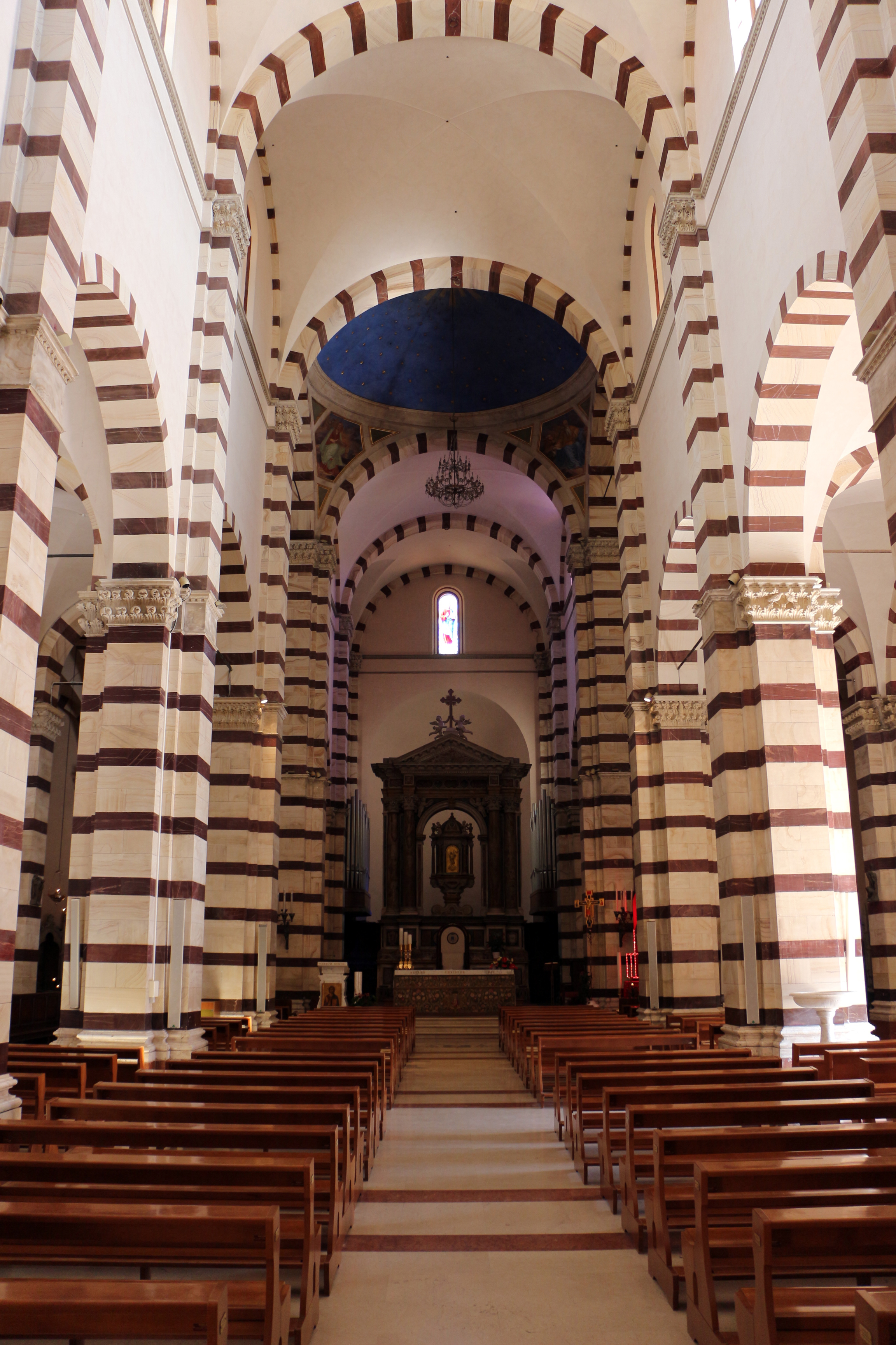 Duomo (Grosseto) - Interior